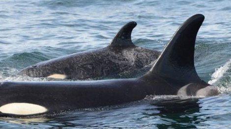 Springer With Baby